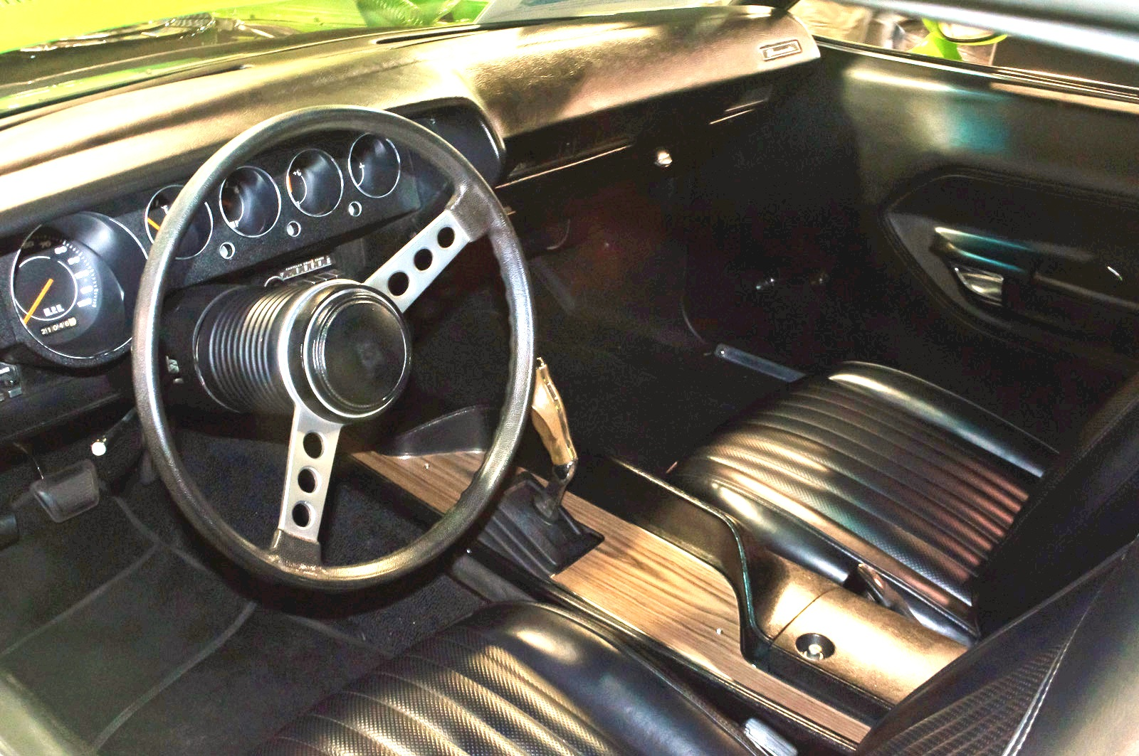 A very nicely restored 'Cuda, equipped with a 440ci V8, a "pistol-grip" 4-speed transmission, power steering, power disc brakes, and factory air conditioning. The latter three features may be taken for granted today even in the cheapest cars, but they were a big deal in the 1970s. The 'Cuda's corporate twin sister was the Dodge Challenger. The Challenger now generates a lot of attention, thanks to a retro-styled Challenger having been re-introduced by Dodge in 2009. Seen at Barrett-Jackson Auction 2012.